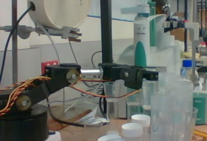 A low-cost robotic arm (Lynxmotion Al5A) being used as an autosampler, carrying water vials for an automated titrator.